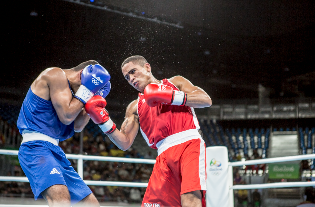 Day 3 at the 2016 Summer Olympics. Boxing 69 kg. Round of 32, Gabriel Maestre (Venezuela) vs Arajik Marutjan (Germany)